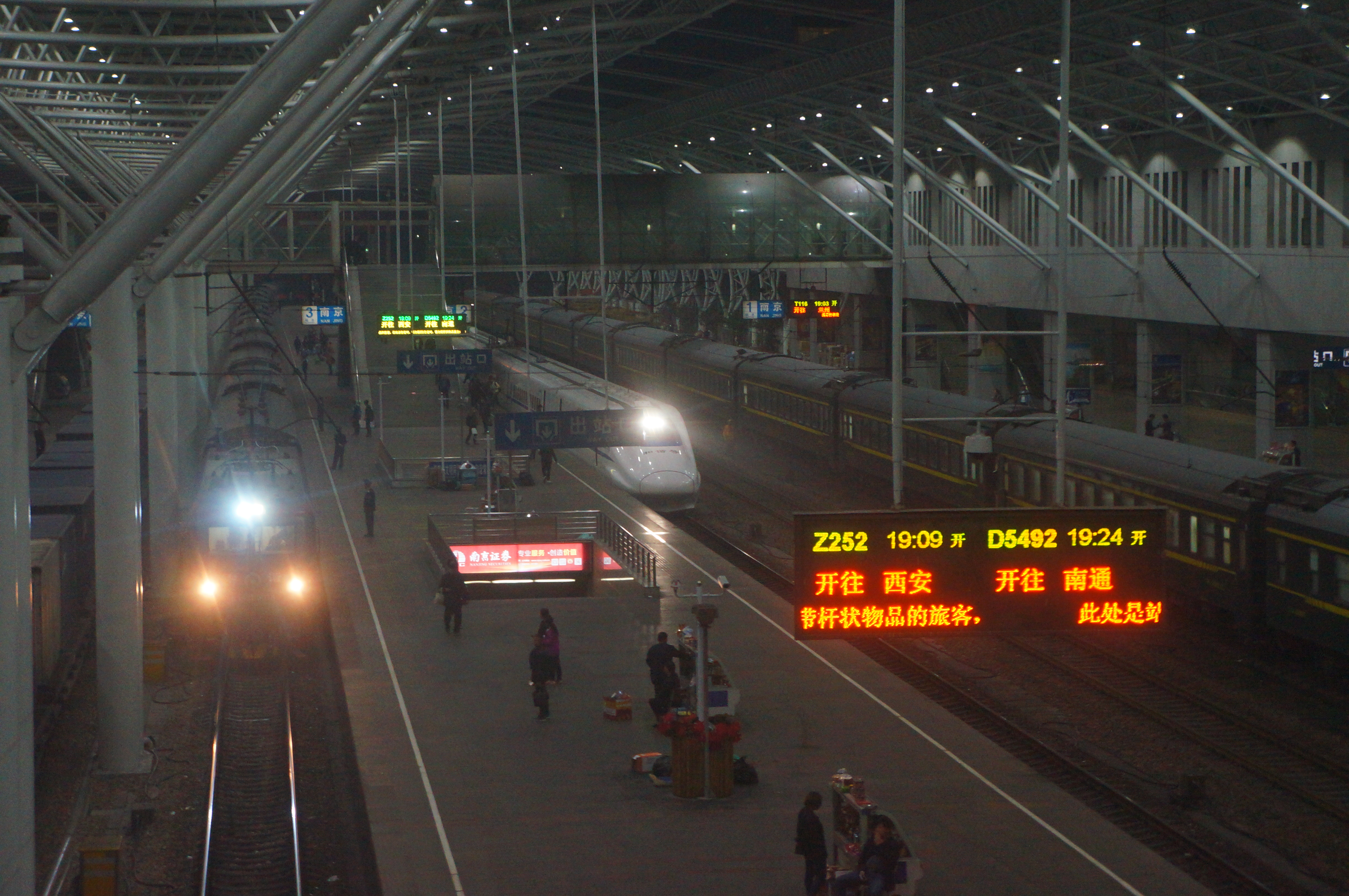 201704 Z252 and D5492 at Nanjing Station, just a quick view to platform 2 when crowds of people were stuck on the overflow.